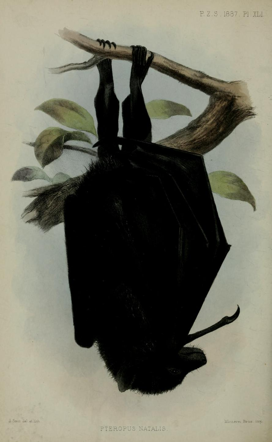 1887 monograph of Pteropus natalis